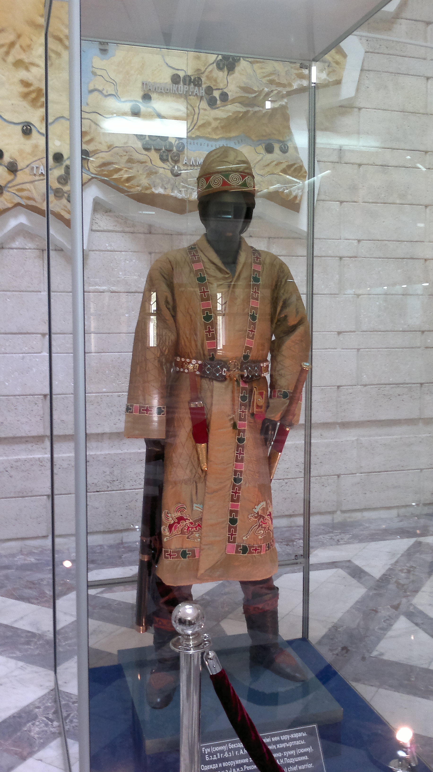 Clothes and armaments of Hunn